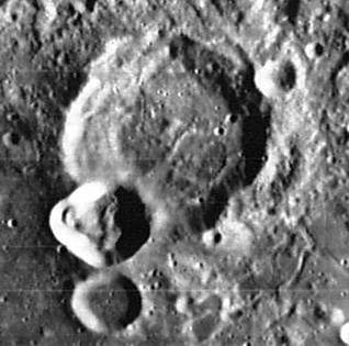 Cavendish lunar crater - part of LO-IV image iv 156 h1